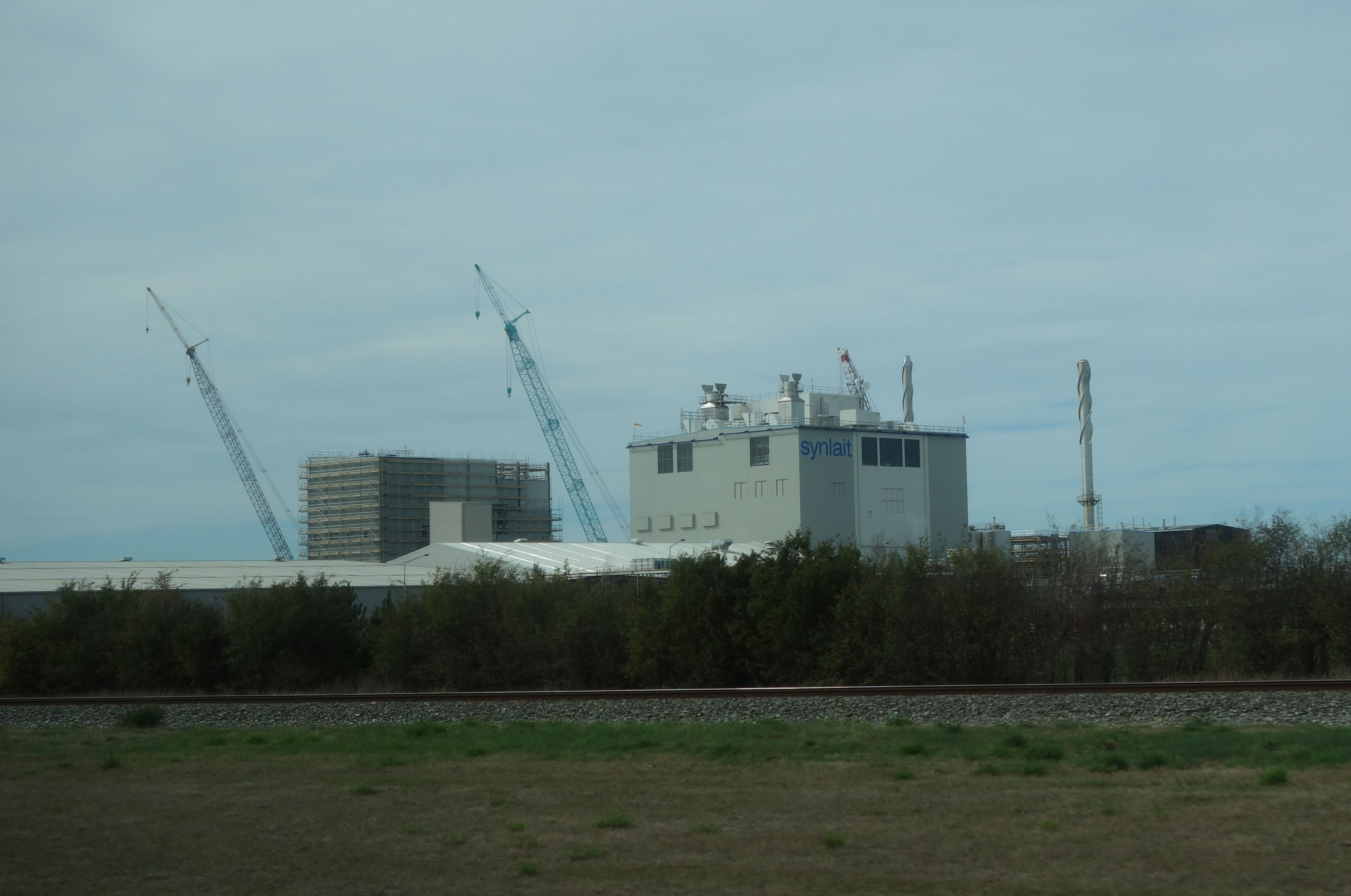 Synlait dairy processing company